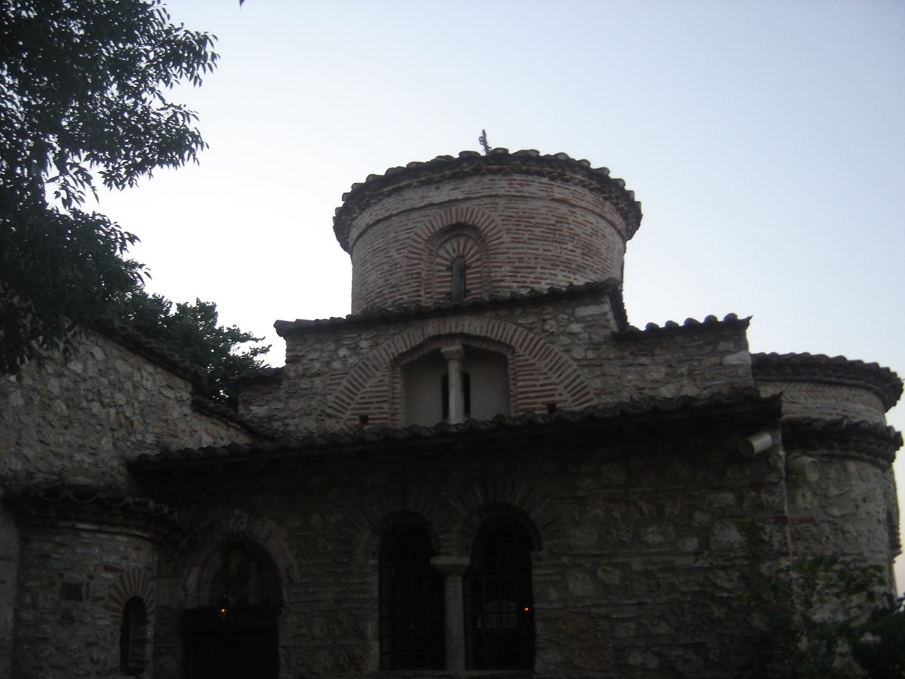 The Orthodox Church of Kimissi tis Theotokou in Kondariotissa. Dated since 10th-11th century,it is one of the oldest Orthodox churches in Pieria prefecture, Greece.